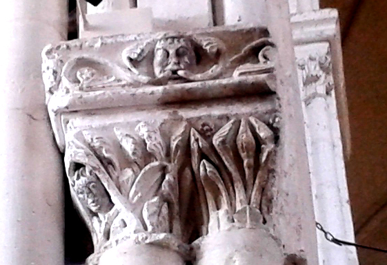 Candes-Saint-Martin Green Man